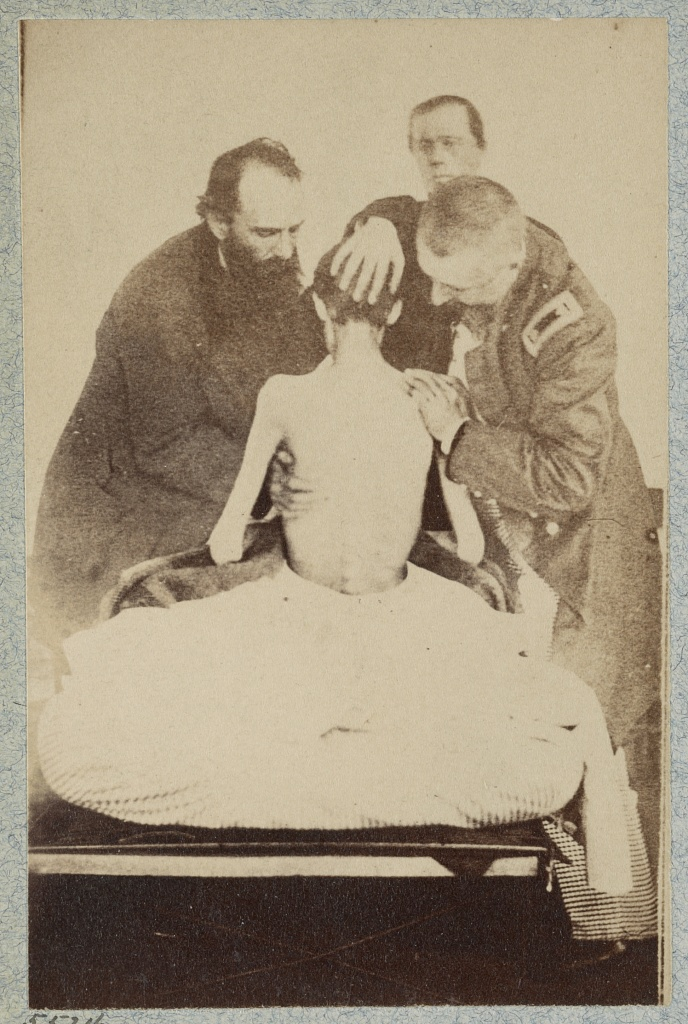 Title: Emaciated prisoner of war from Belle Isle, Richmond, Private Isaiah G. Bowker of Co. B, 9th Maine Volunteers, at the U.S. General Hospital, Div. 1, Annapolis Abstract: Photo shows Pvt. Isaiah G. Bowker (d. 1864), Co. B, 9th Maine Vols. at the U.S. General Hospital Div. no. 1, Annapolis, Maryland. Source: U.S. Army Heritage and Education Center, 2013. Physical description: 1 photographic print on card mount : half stereograph, albumen. Notes: Title devised by Library staff.; For further information: see Harper's Weekly, June 18, 1864, page 385.; Gift; Col. Godwin Ordway; 1948.; Mounted with three other photographs.; No. 5524.; Erroneous caption on card: "Returned Federal prisoners from Andersonville prison."